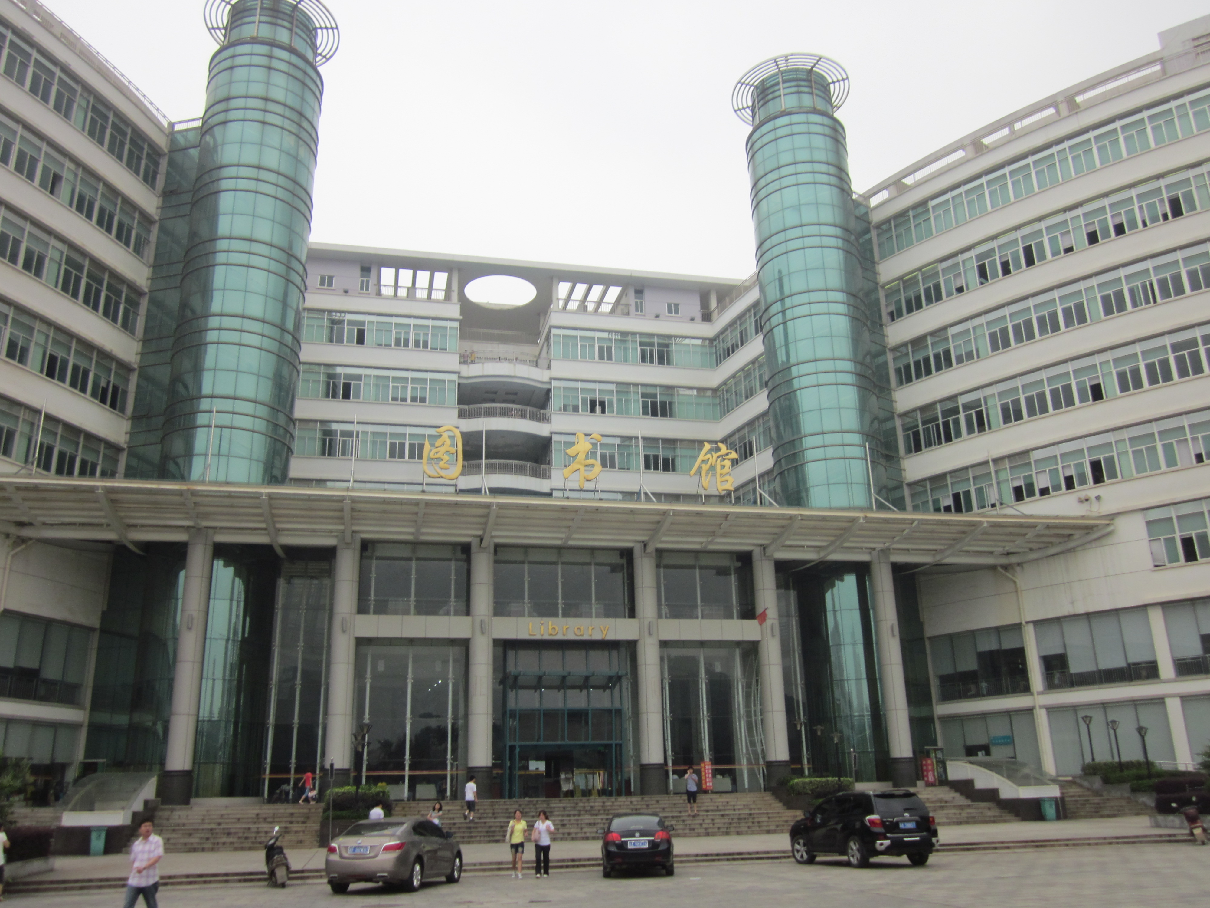 Central South University of Forestry and Technology Library.